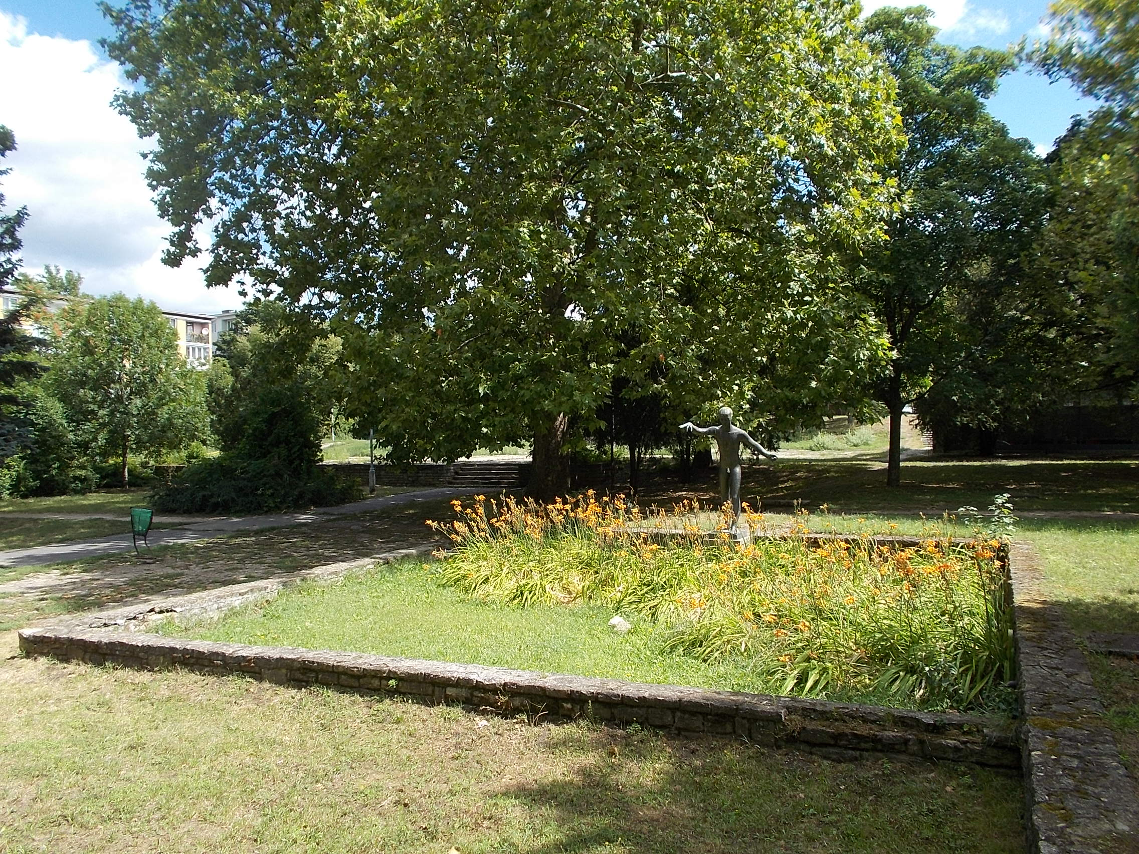 Stone throwing boy ( or Walking into water ) by Ferenc Brém, (Bronze, 1977 works, nude boy, originally a shallow pool stand before its but now only the rich vegetation imitates the water ). - Komáromi Street, Tatabánya, Komárom-Esztergom County, Hungary.